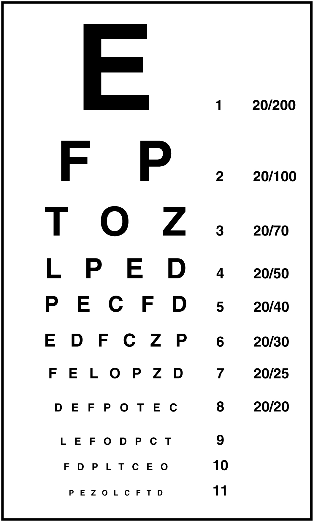 Illustration from Anatomy & Physiology, Connexions Web site. Jun 19, 2013.